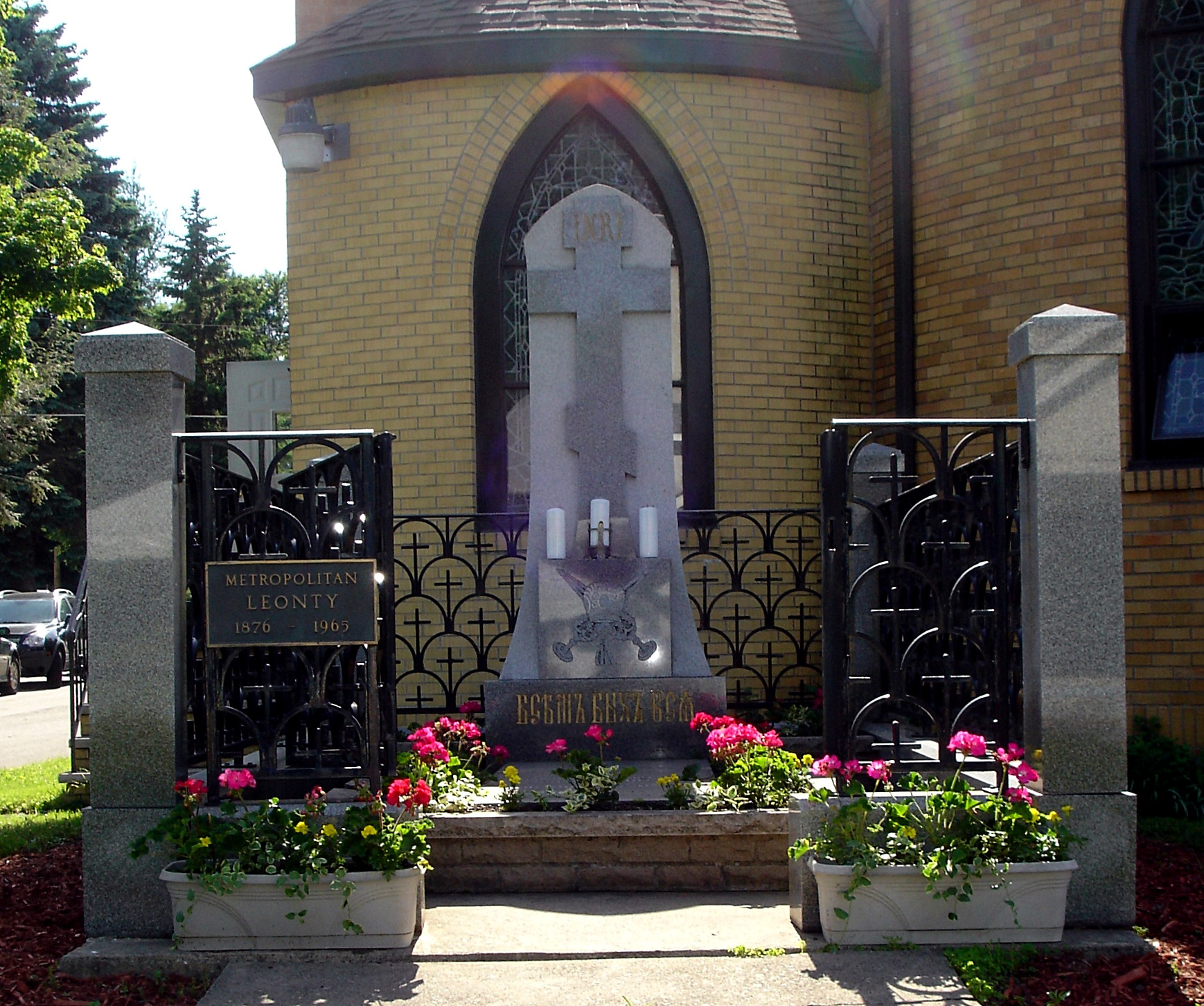 Metropolitan Leonty, 1876-1965